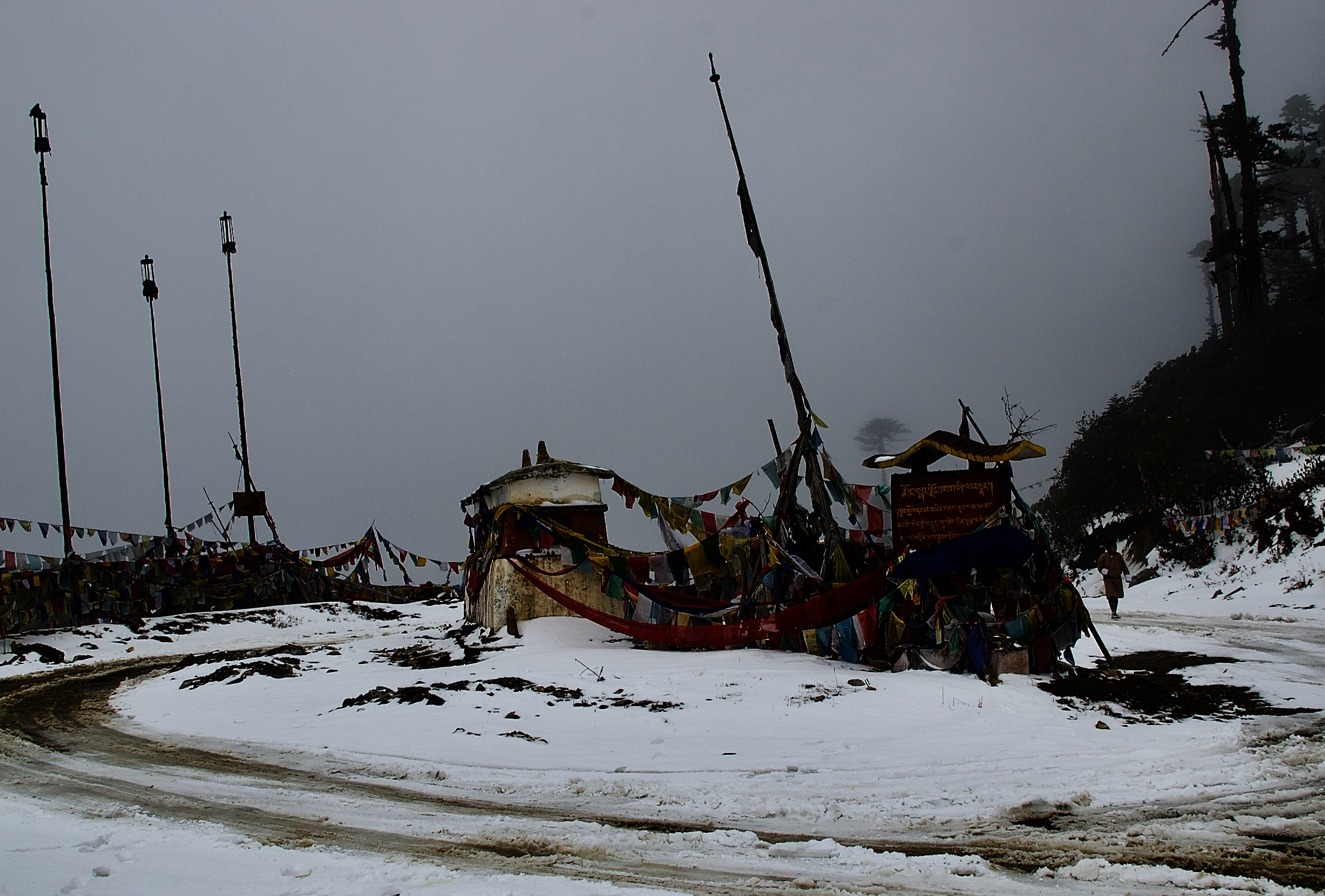 Thrumshingla Pass, Eastern Buthan, with snow in March 2013